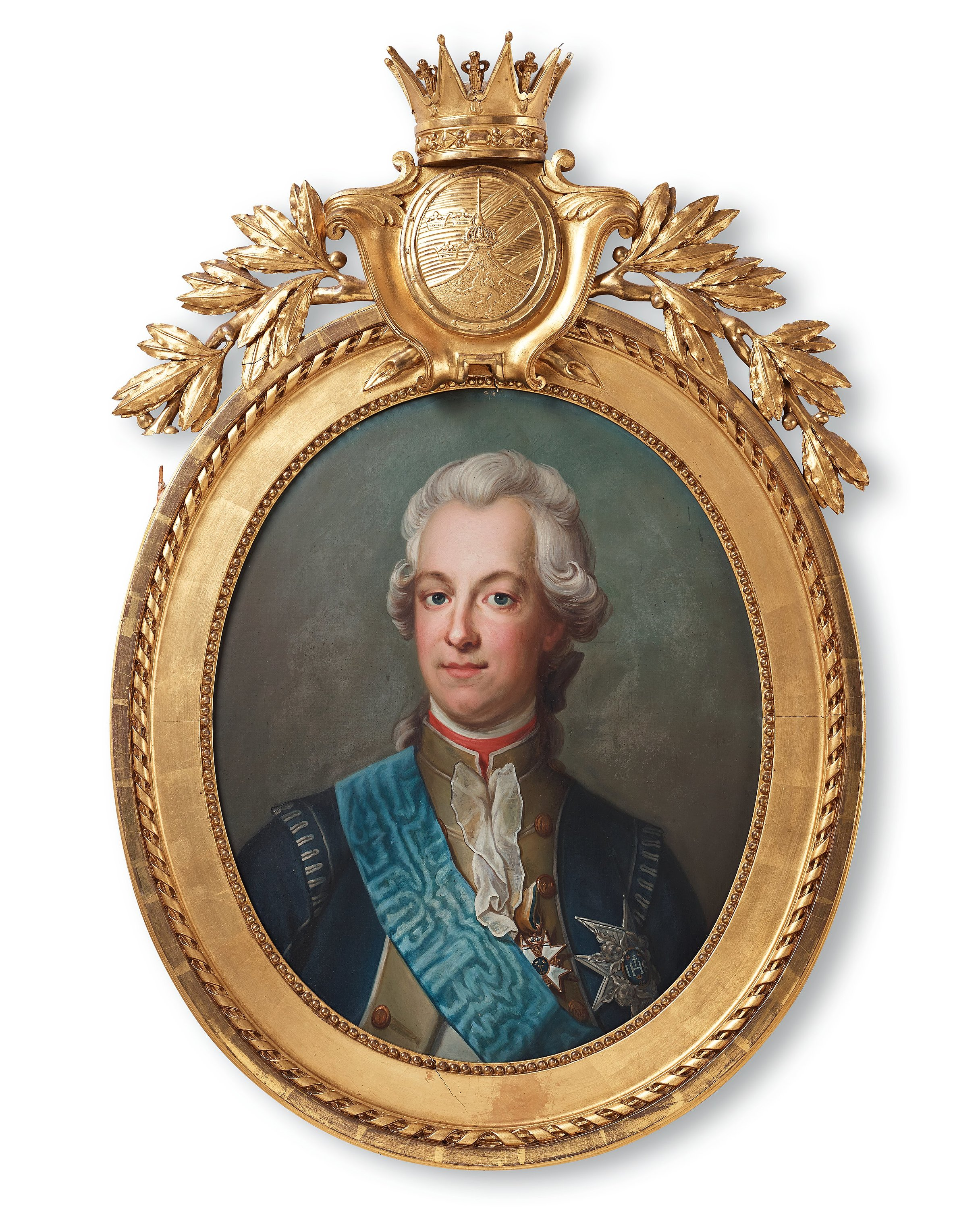 Hertig Fredrik Adolf (1750-1803) iklädd uniform m/1779 för Västmanlands regemente. Över axeln bär han Serafimerordens band, samt på bröstet dess kraschan. Han bär även Svärdsorden. Ramen är prydd med hertigkrona och Östergötlands landskapsvapen, då Fredrik Adolf var Hertig av Östergötland. Målning från 1780-talet, och tillskriven Jakob Björck.